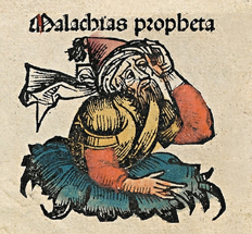 The biblical prophet Malachi. Woodcut from the Nuremberg Chronicle